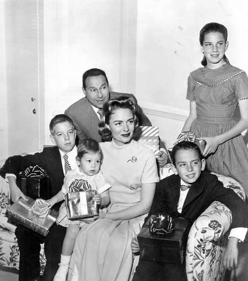 Publicity photo of actress Donna Reed and her family in 1959. In back are Tony Owen (Reed's husband at that time) and daughter Penny Jane. Seated with Reed from left are son, Tony, Jr., daughter Mary and son, Tim.